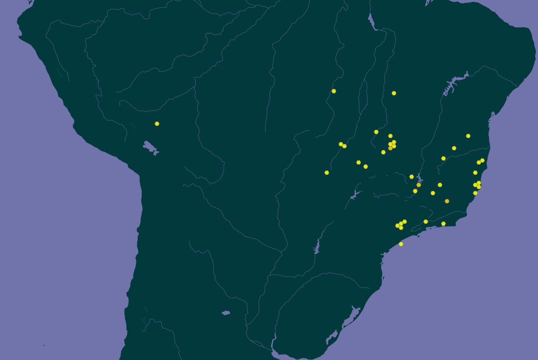 Eriotheca candolleana gbif distributional map